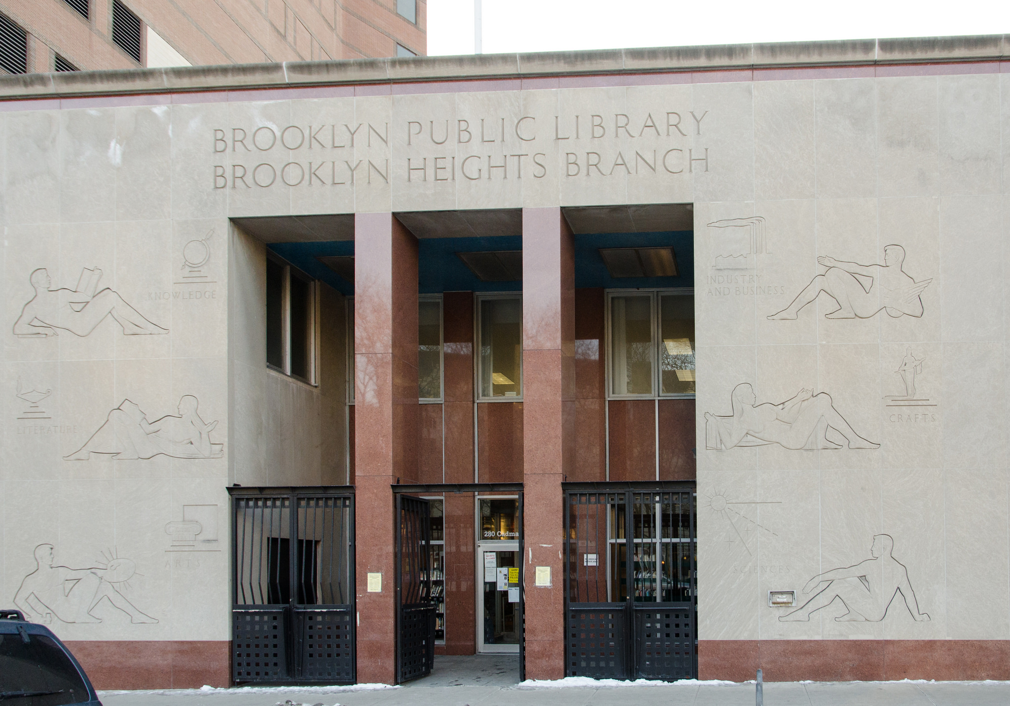 Exterior facade of Brooklyn Heights Library